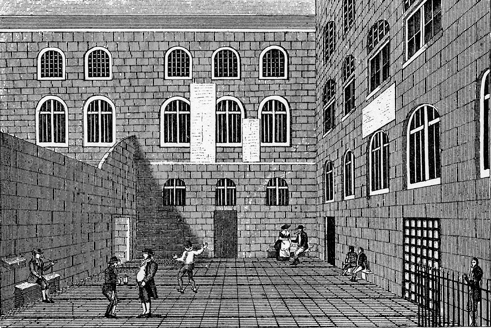 Newgate Prison, Inner Court, 18th century, from a contemporary print. General Collections Keywords: london 18th century; newgate prison; Topography; Great Britain